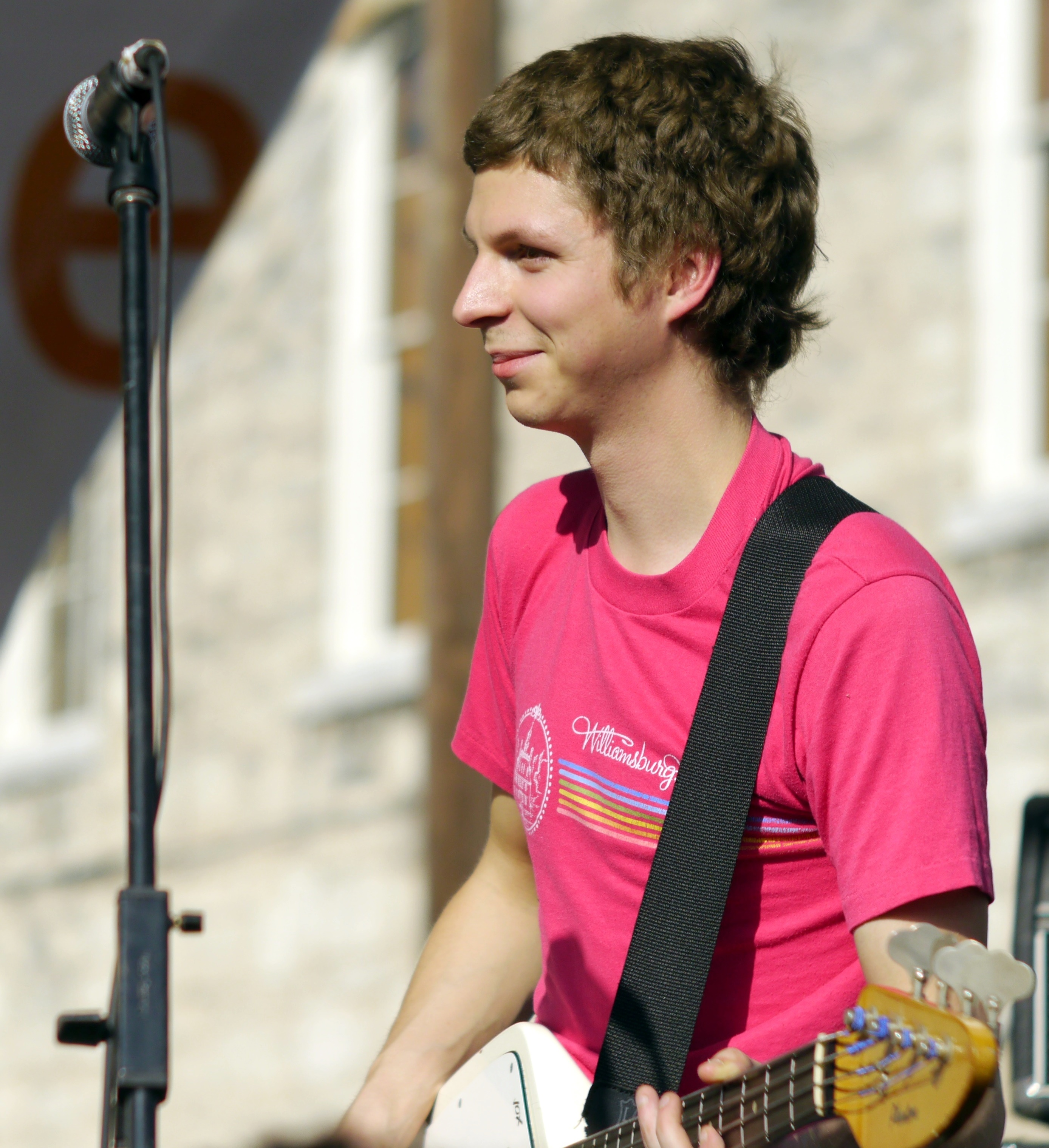 Canadian actor Michael Cera in March, 2011.